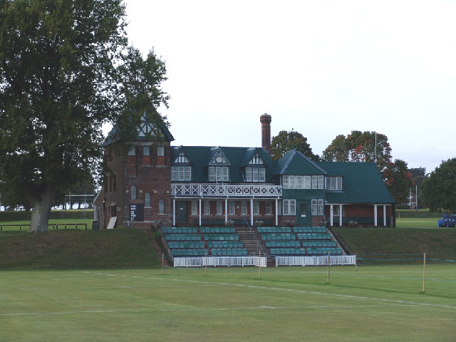 Marlborough College cricket pavilion. The natural lie of the land has been extensively terraced to lay out the many playing fields of this public school.